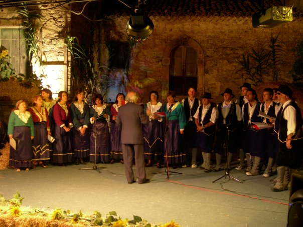 KatundiZembraJone